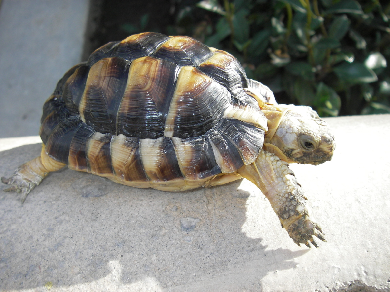 A captive bred 5-year-old Egyptian tortoise. Taken by Kevin Yang in December 2006 and released to the public domain.